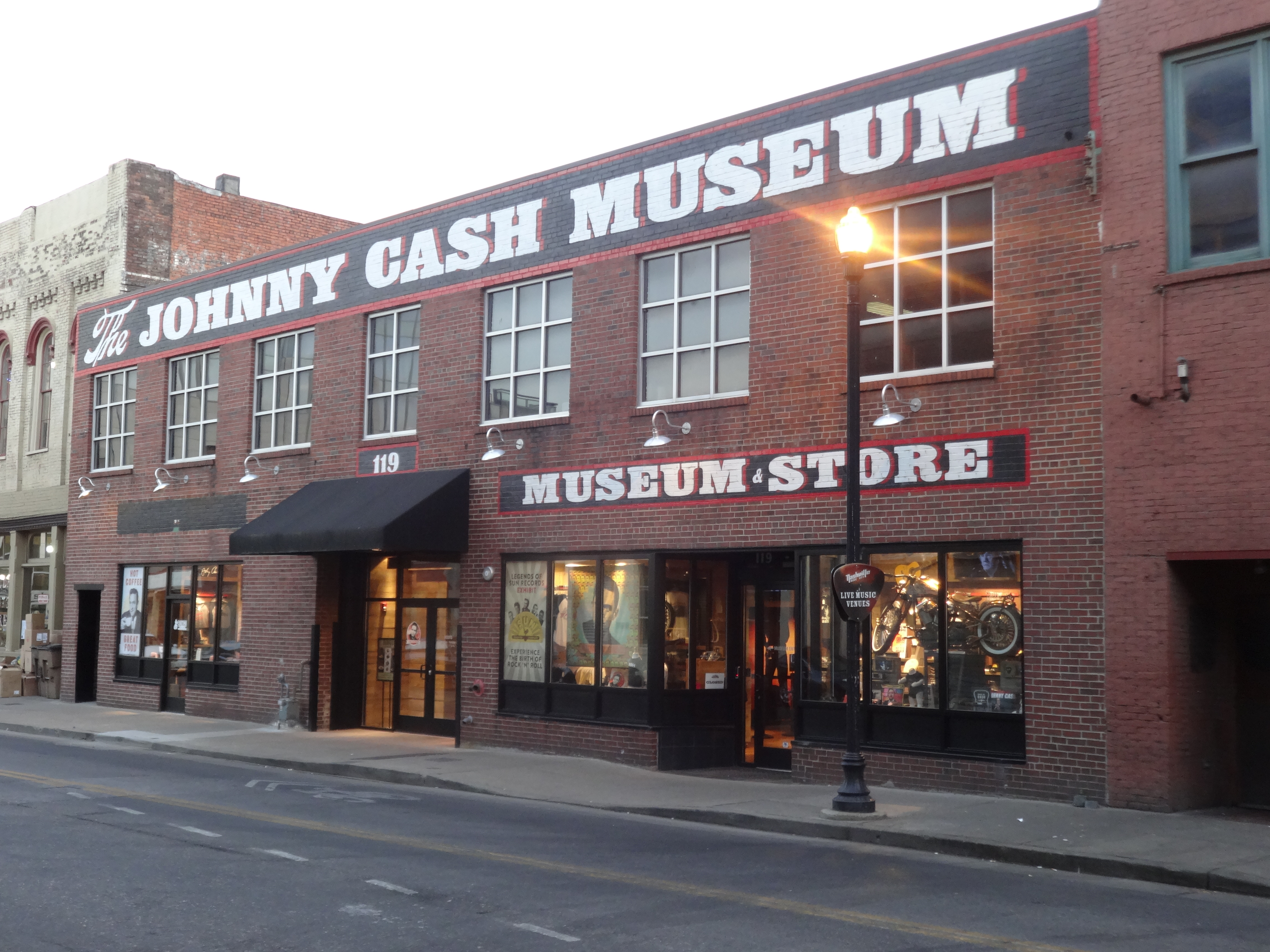 Johnny Cash Museum, Nashville, Davidson County, Tennessee